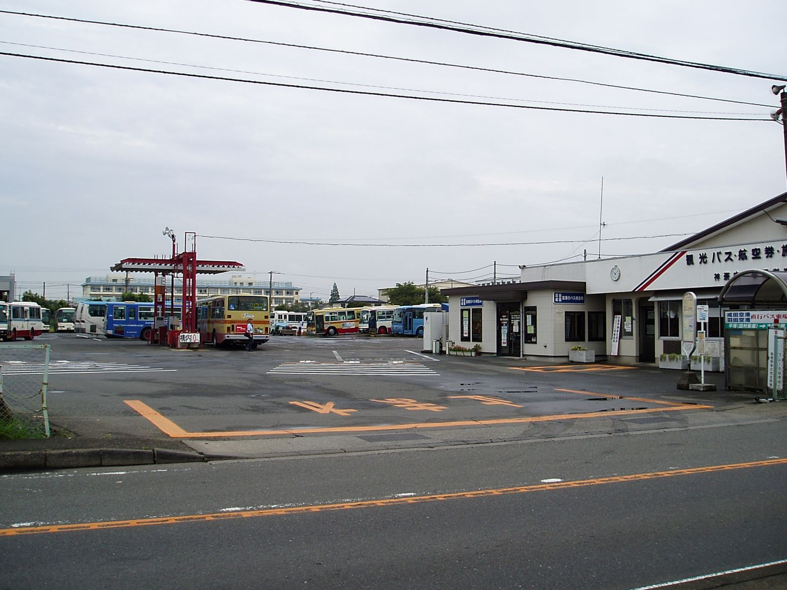 Kanagawa Chuo Kotsu Hiratsuka Branch